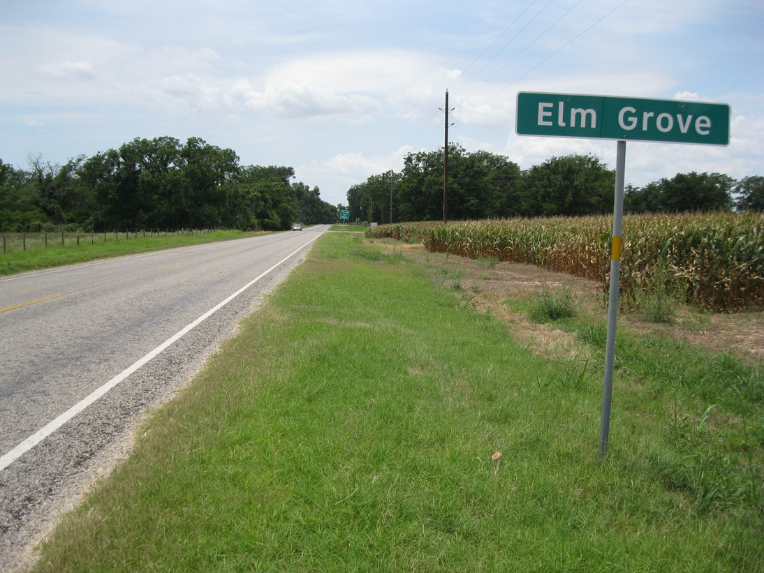 Photo shows the Elm Grove sign on FM 2614. The view is west-northwest. The corn is brown from the 2013 mid-summer drought.